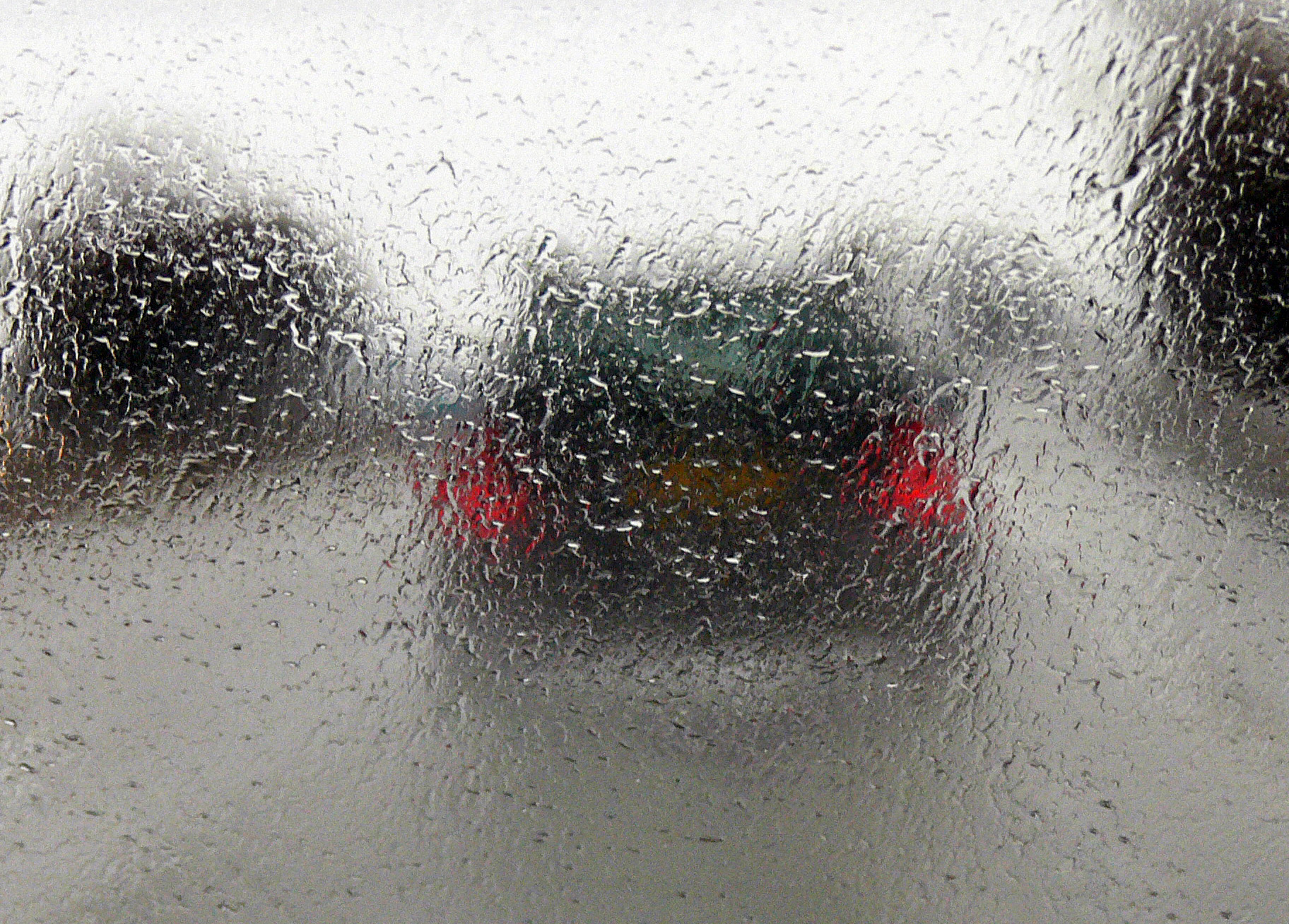 Car driving on a salt road, under the snow and raising salty spray (Alsace, France 2005)